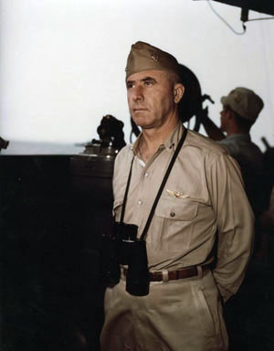 Rear Admiral Alfred E. Montgonery